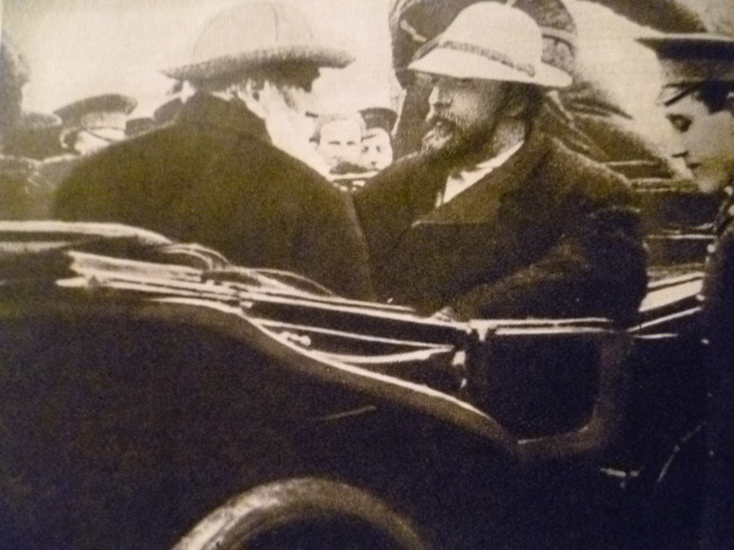 Leo Tolstoy in Moscow (19 Sept., 1909) from the Drankov's documentary film